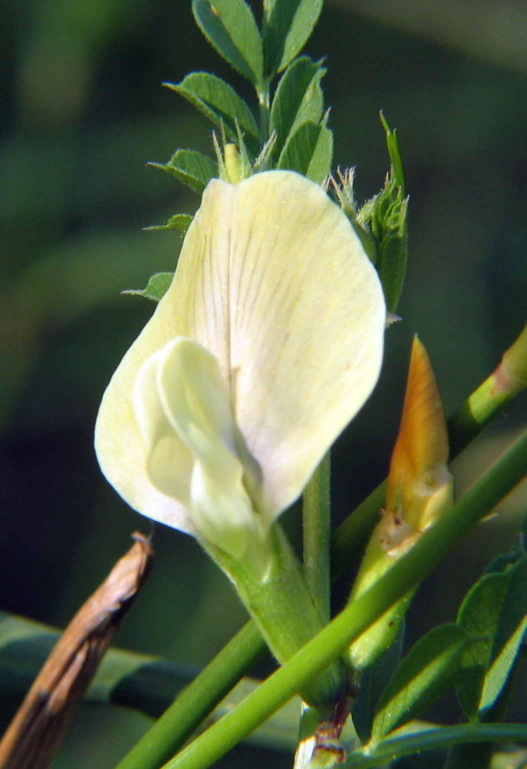 Vicia grandiflora Taken by me in Ungheni village, Argeş County, Romania